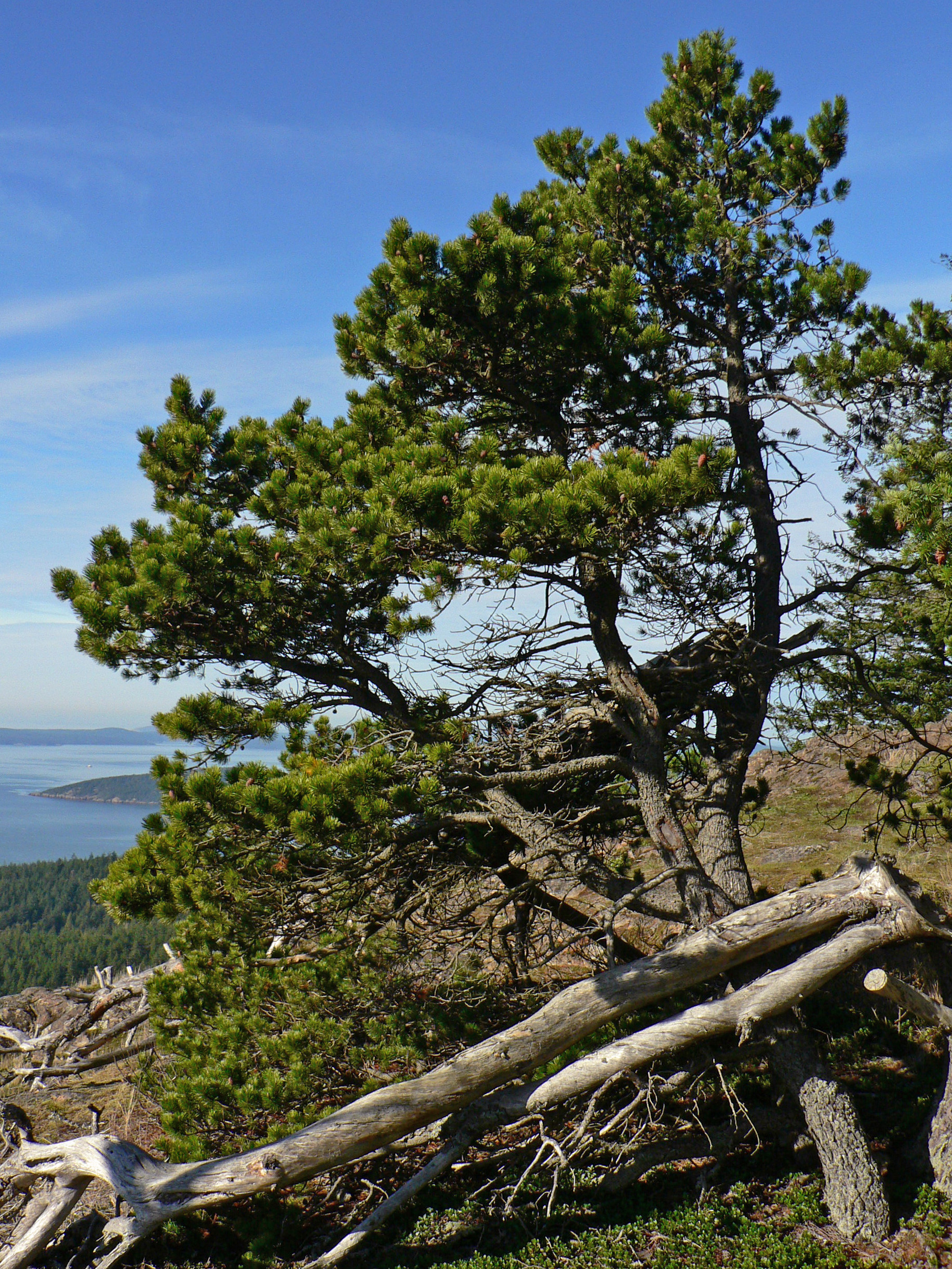 Shore Pine with Burrows Bay and Rosario Strait behind.